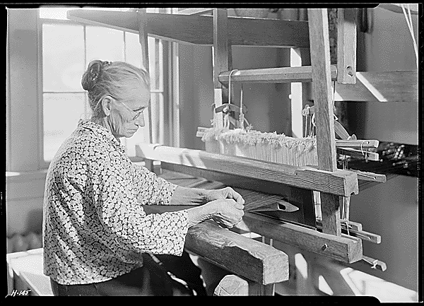 Sarah Elizabeth Cogdill "Aunt Lizzie" Reagan (1857–1946), a weaver at the Pi Beta Phi Settlement School's Arrowcraft shop in Gatlinburg, Tennessee, USA, photographed in 1933. Caption: "Aunt Lizzie Reagan, at the Pi Beta Phi School, Gatlinburg, Tennessee, weaving old-fashioned jean. Very few can weave this kind of cloth now. She is 75 years old and lives near the school, earning her living by weaving.", 11/14/1933."